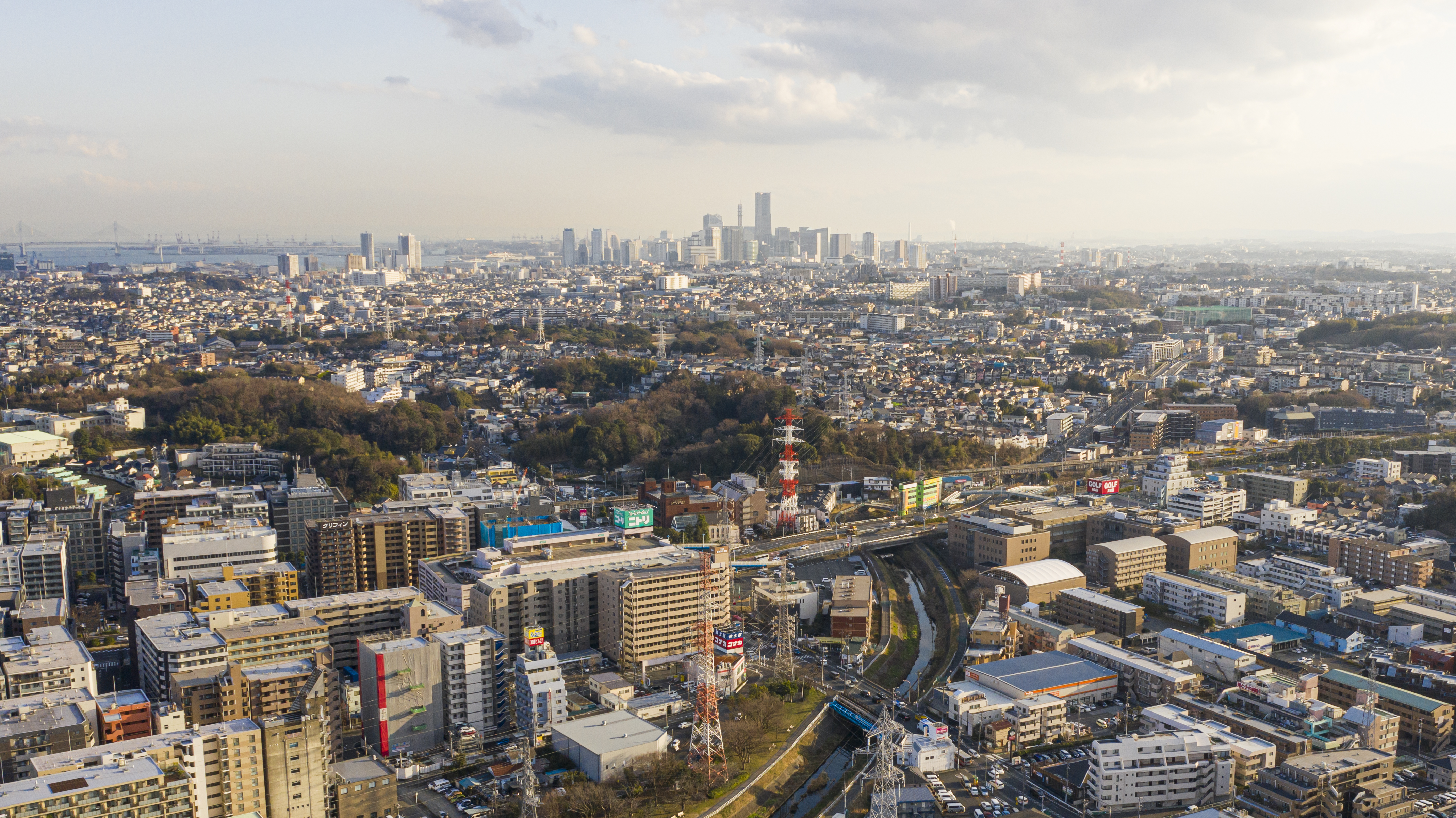 Aerial view of Yokohama, Tokyo, Japan